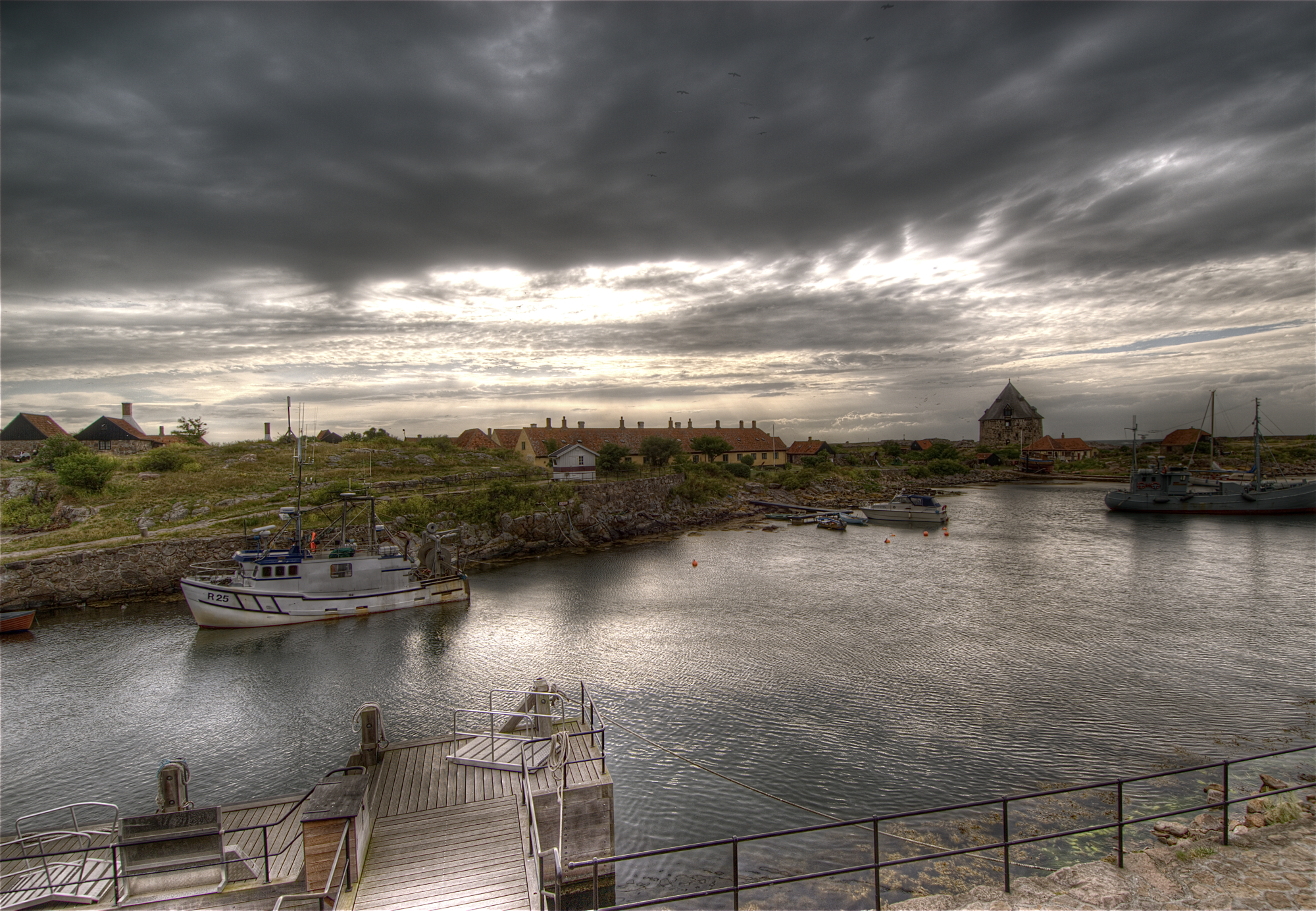 View from Christiansø to Fredriksø.